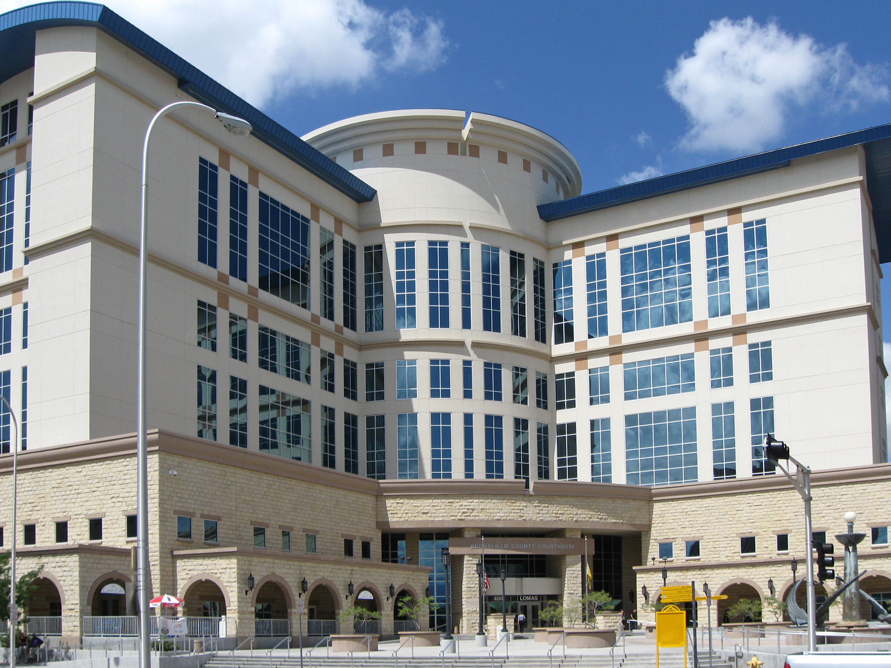 Bernalillo County Courthouse, located at 400 Lomas (southwest corner of Lomas and 4th Street) in Albuquerque, New Mexico.